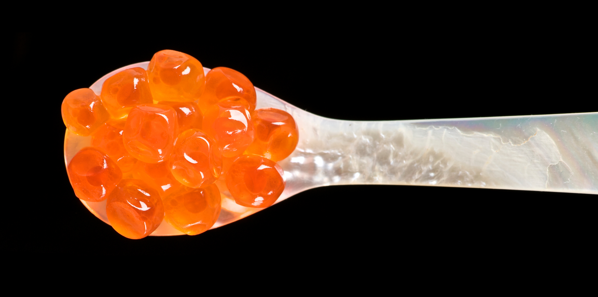 Spoon with orange caviar (Mother of Pearl spoon with salmon roe)